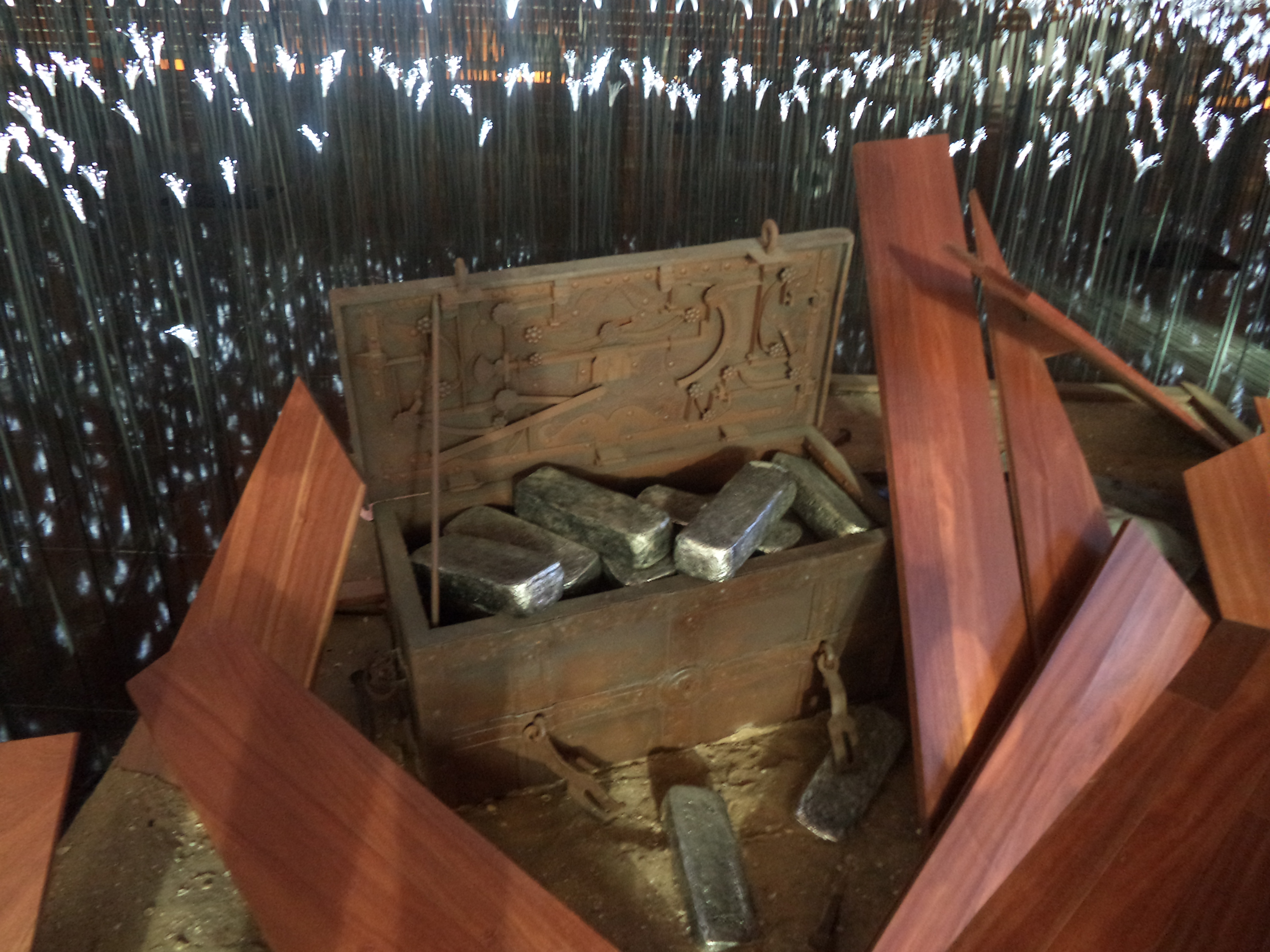 Caja de caudales del siglo XVI llena de lingotes de plata. Representación museística del Pabellón de la navegación de Sevilla